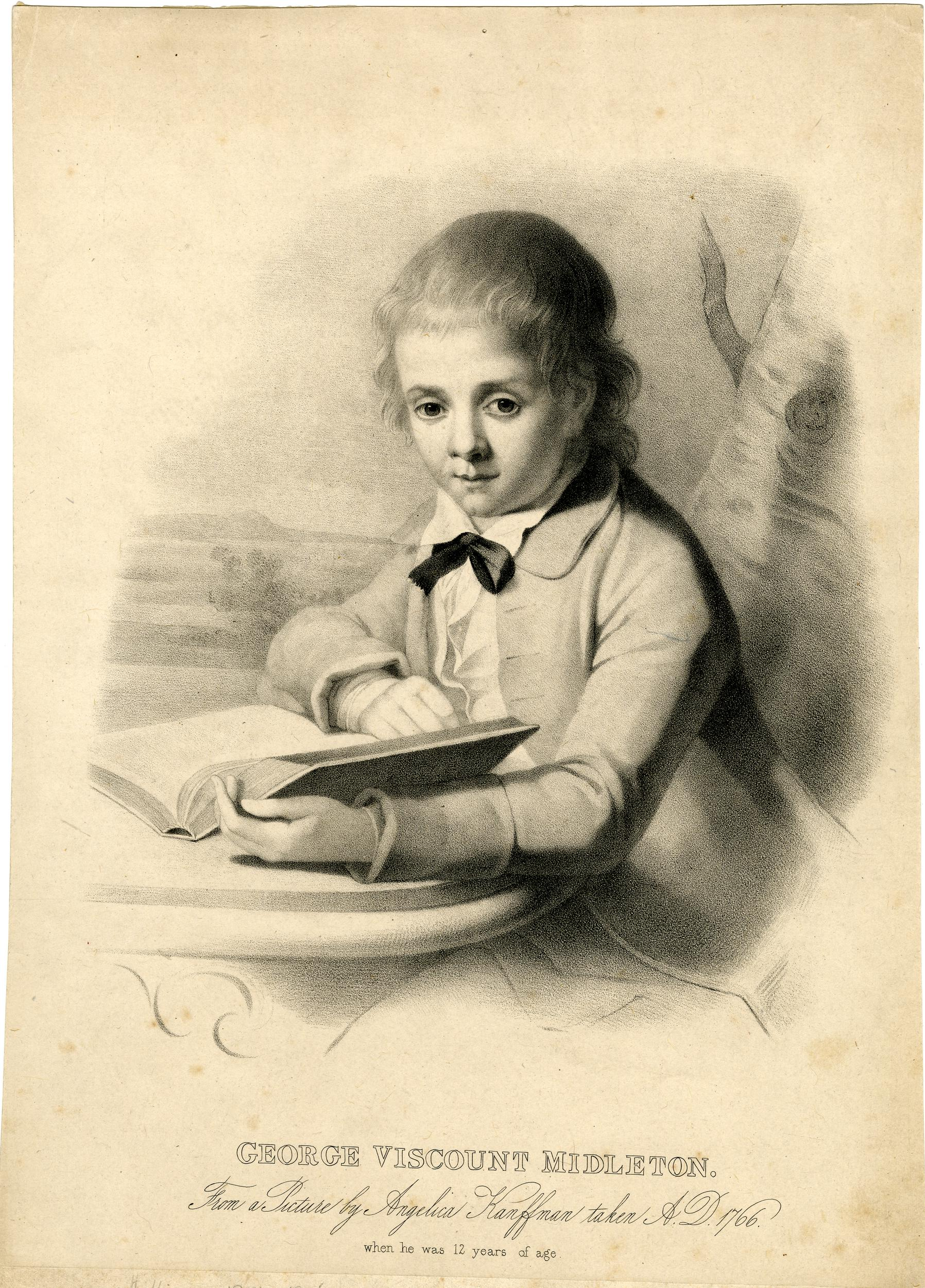 Portrait of George Brodrick, 4th Viscount Midleton, aged twelve; three-quarter length, seated to left at a table, holding an open book, looking down to front, wearing open jacket, shirt, and black bow-tie; tree at right, landscape in background; after Angelica Kauffman. Lithograph on chine collé